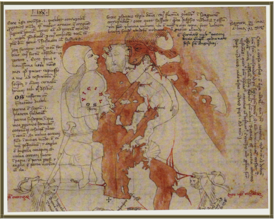 Biblioteca Apostolica Vatican, Vat. Lat. 6435fol 79v, 1335-1338